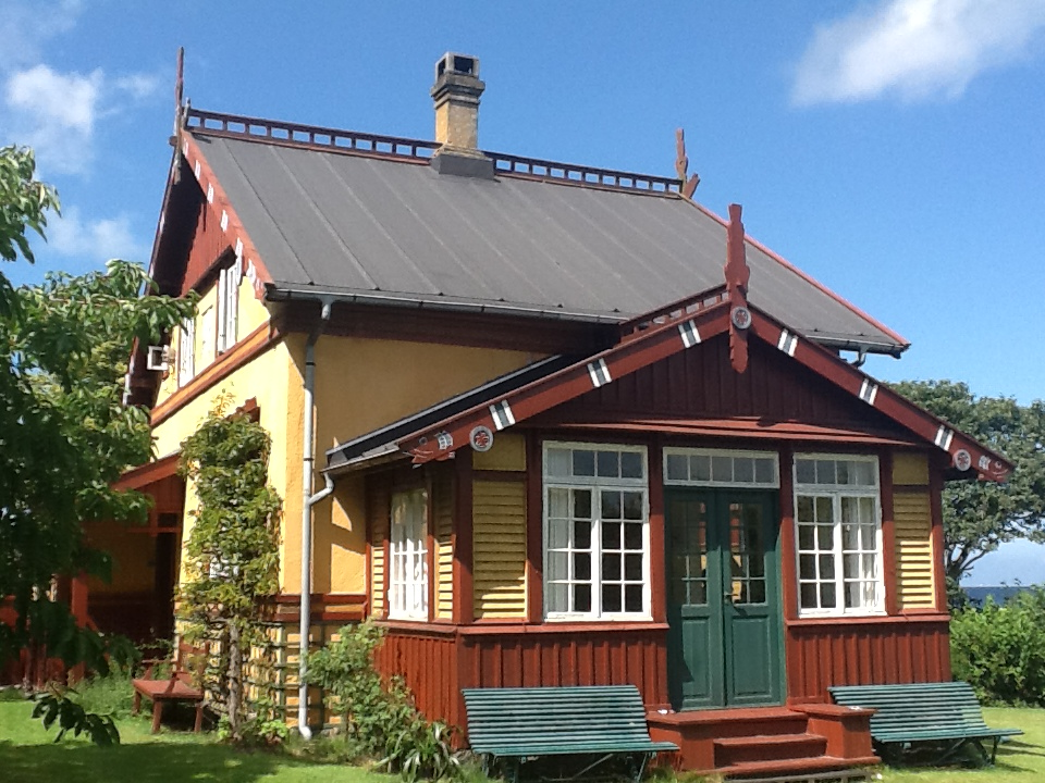 The main building of the Summerplace Rytterhuset by architect Martin Nyrop.